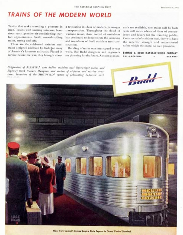 Advertisement for Budd Manufacturing, who produced many of the cars for the streamlined trains, beginning in the 1930s. The ad depicts the Empire State Express, a streamlined train of the New York Central Railroad. The ad appeared in the December 14, 1944 edition of Saturday Evening Post. Did not crop the magazine name and date from top of the page for verification purposes.